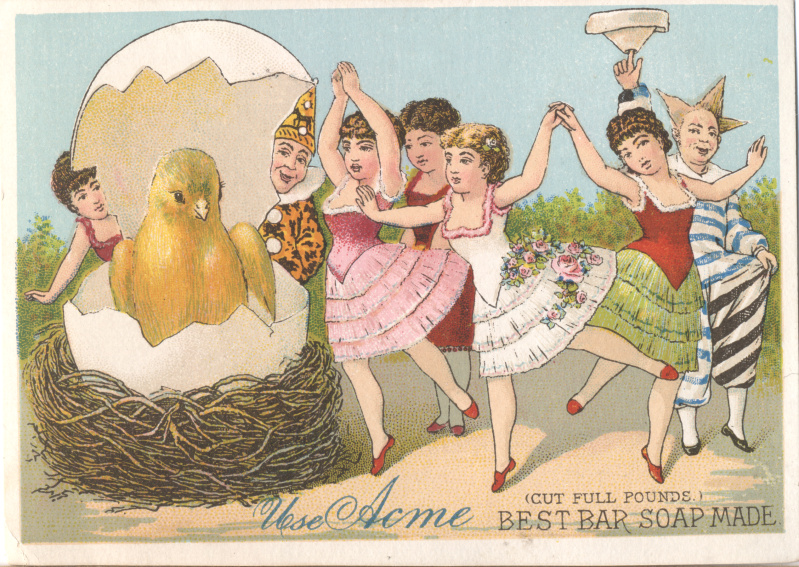 Persistent URL: Subject (TGM): Animals; Birds; Chickens; Birds' eggs & nests; Fairies; Clowns; Fantasy; Household soap; Dressing & grooming equipment; Cosmetics & soap